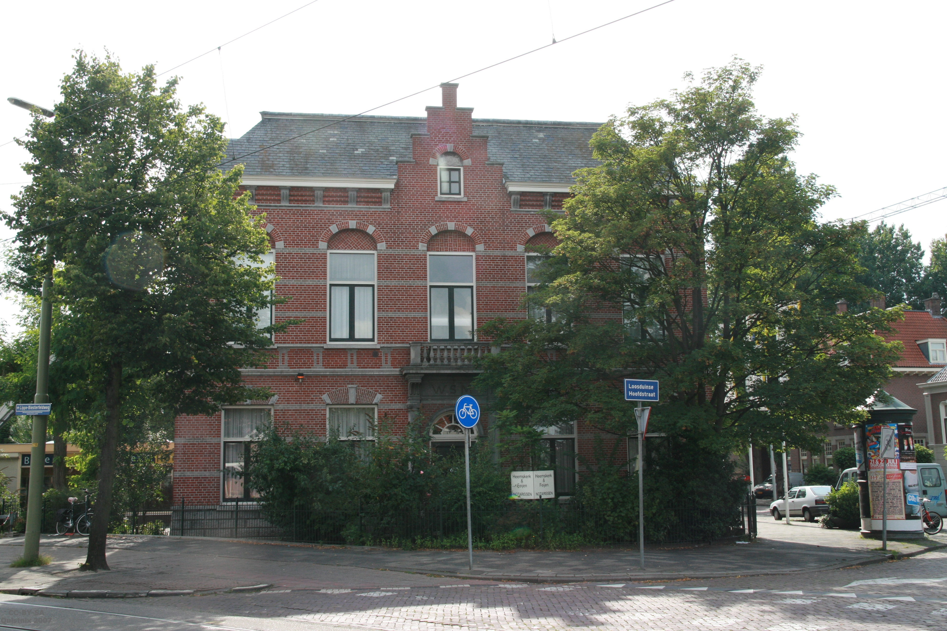 Former headquarters of Westlandsche Stoomtramweg Maatschappij in Loosduinen.